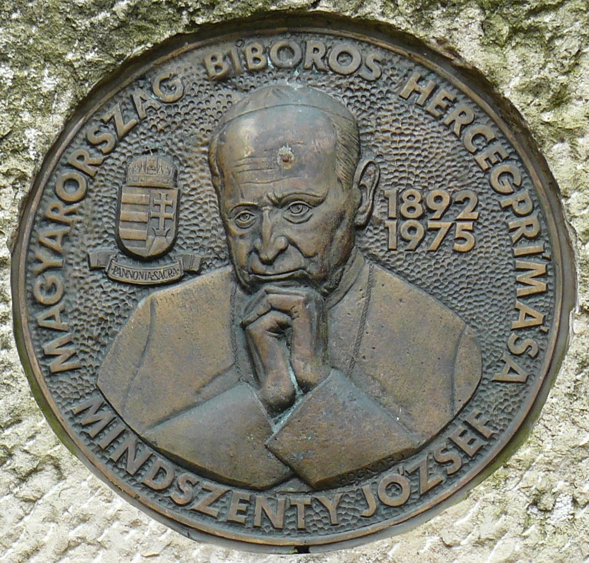 Mindszenty plaque-relief by Adolf Jager (1989 Bronze) on the wall of the Embassy of the United States in Budapest.